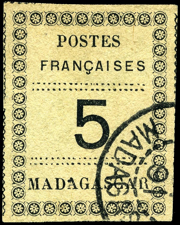 Madagascar 5c stamp of 1891